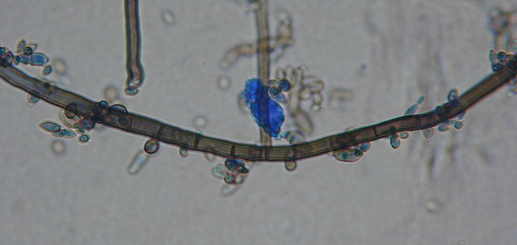 Aureobasidium pullulans (de Bary) G. Arnaud Location: Medical Mycology Lab, University of Wisconsin La Crosse, La Crosse, Wisconsin, USA Observation Notes: A. pullulans is a common household contaminant that is found in warm damp places such as bathrooms, laundry rooms, and walls containing leaking pipes. It is the best known species of the Aureobasidium genus due to the fact that it is opportunistic and can live in humans.The main problem found with this species is that it can tolerate extreme temperatures in either direction, high salt concentration, and highly acidic environments thus making it extremely difficult to eradicate from indoor environments. This is due to the fact that it can use mannitol and trehalose to build protective structures against heat and cold or lysis from highly hypertonic environments.The fungus itself is generally found in a yeast like state although it can grow chlamydospores and conidia. Macroconidia and microconidia have been observed and older colonies tend to turn black as the macroconidia appear. Cells are smooth and thin but irregular in size and shape.[admin – Sat Aug 14 02:07:15 0000 2010]: Changed location name from ‘UW- La Crosse Medical mycology Lab’ to ‘Medical Mycology Lab, University of Wisconsin La Crosse, La Crosse, Wisconsin, USA’ For more information about this, see the observation page at Mushroom Observer.